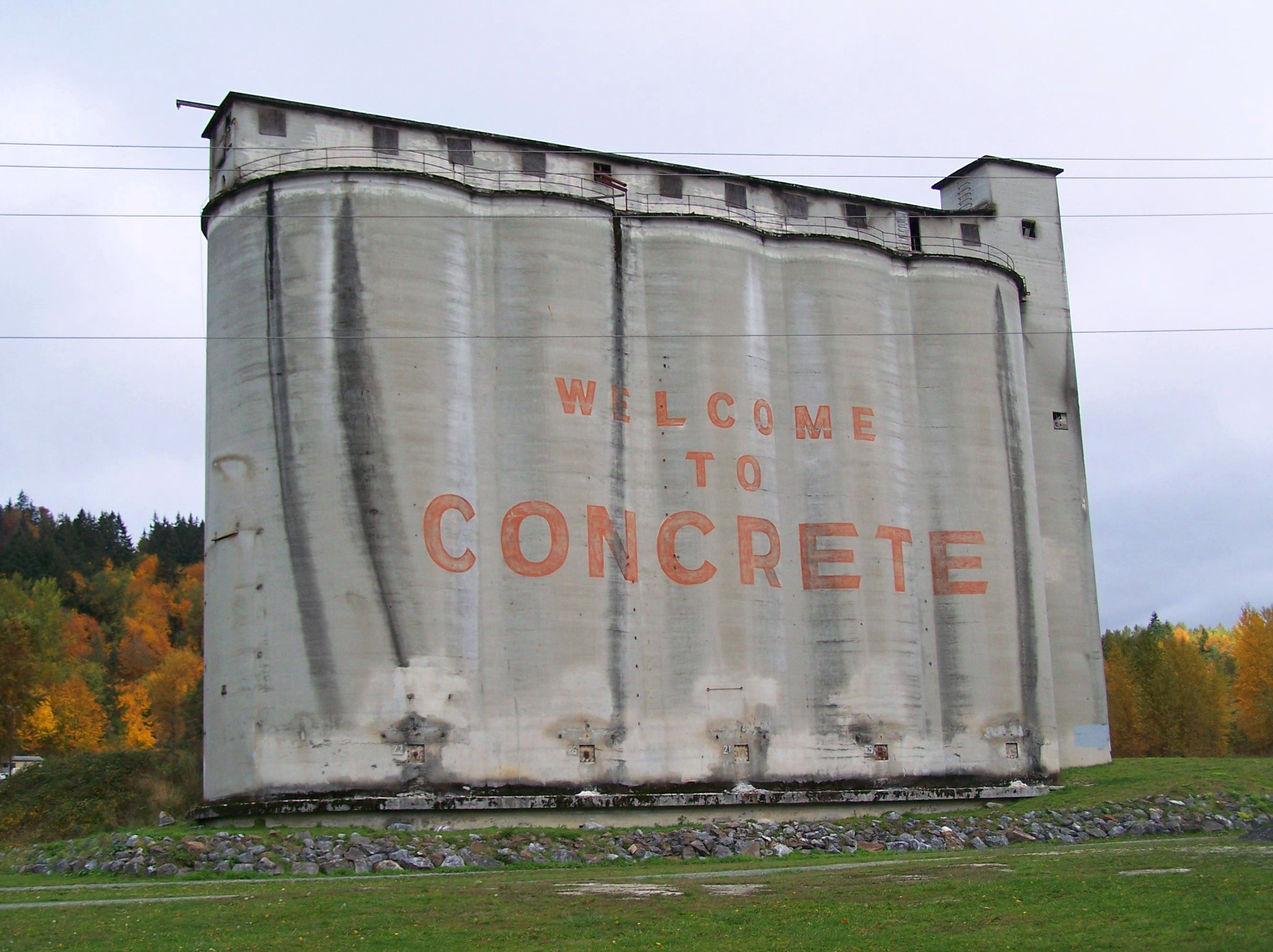 Superior Portland Cement Silos - Concrete Washington - in Autumn